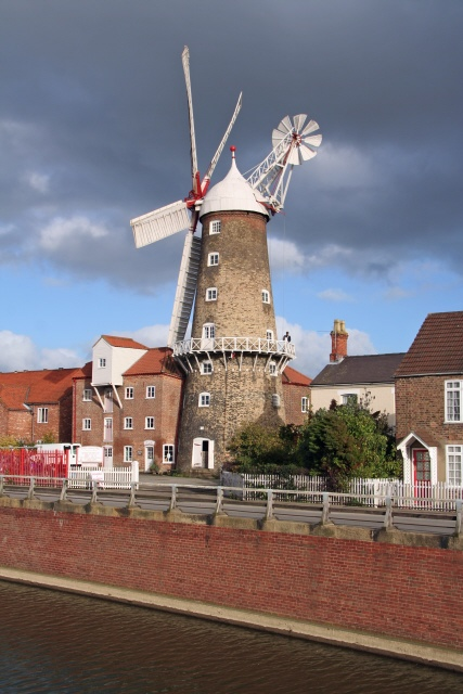 Maud Foster Windmill. The Maud Foster Windmill stands next to the Maud Foster Drain in Boston. It is the tallest working windmill in the country, and is unusual in that it has five sails. It was built in 1819 to grind corn, and flour is still produced by the mill today.